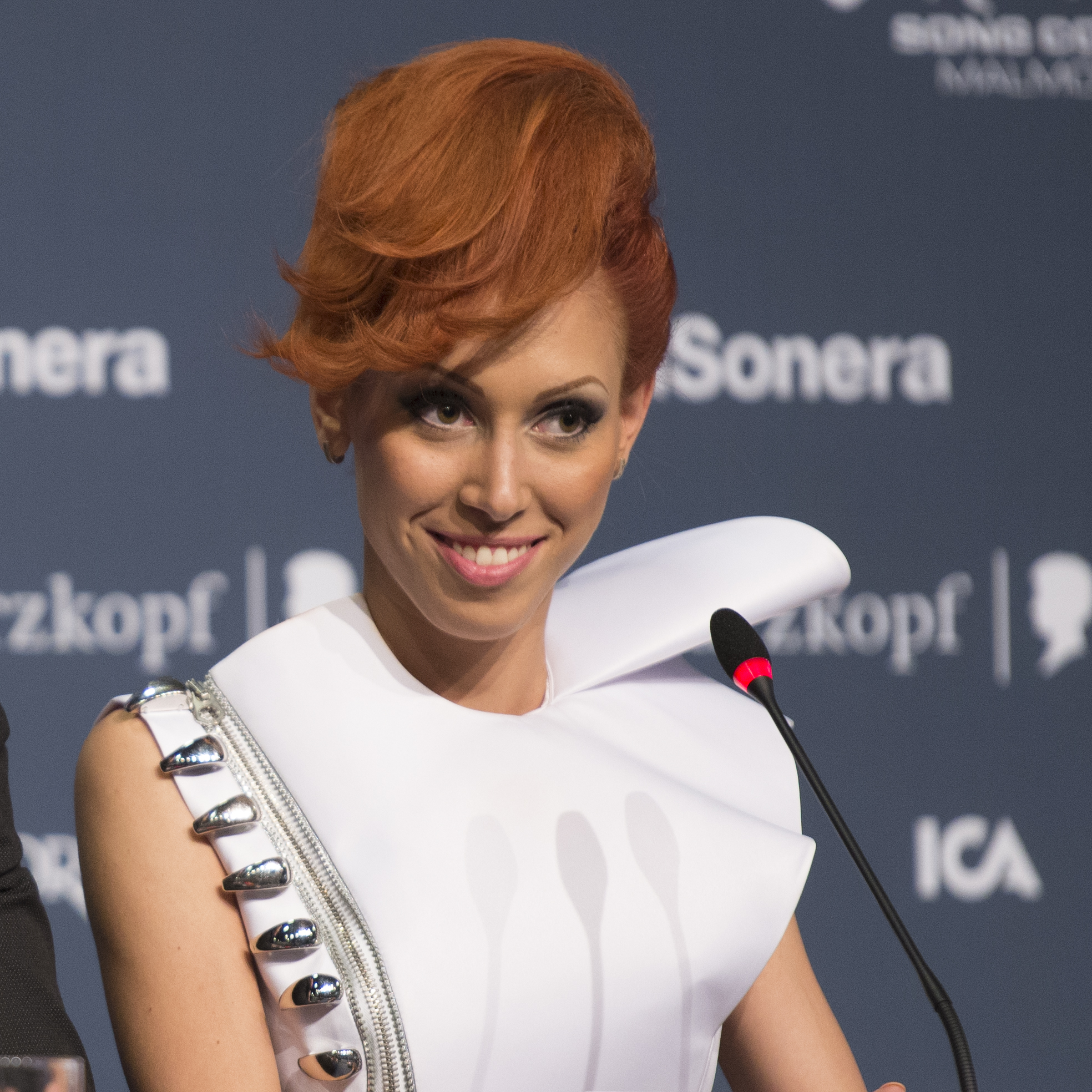 Aliona Moon at a press conference during the Eurovision Song Contest 2013 in Malmö. (Help translate this text)